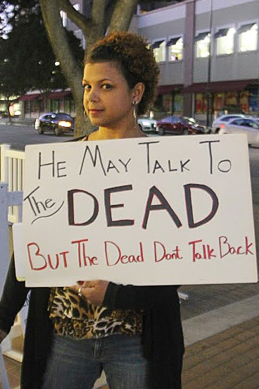 Heather Henderson (organizer) at John Edward Protest